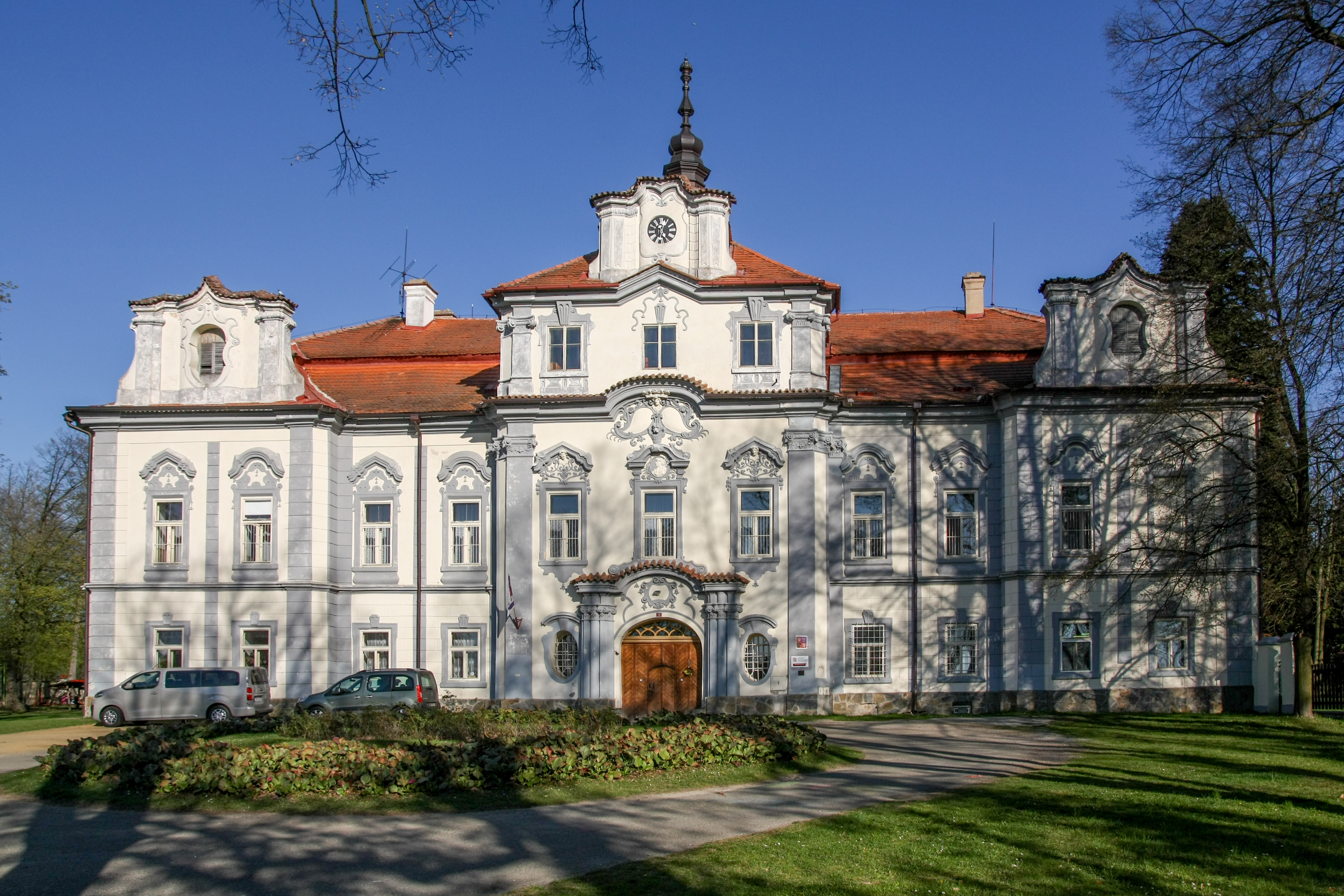 Castle in municipality Přestavlky, Příbram District, Central Bohemian Region, Czechia